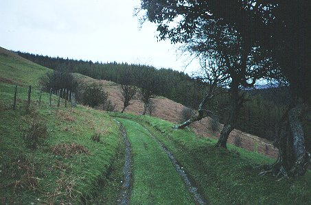 Above Bron-yr -aur. So that's the Led Zep Bron-yr-aur. Green lane heading towards Tarren y Gesail from the Dyfi floodplain. View North